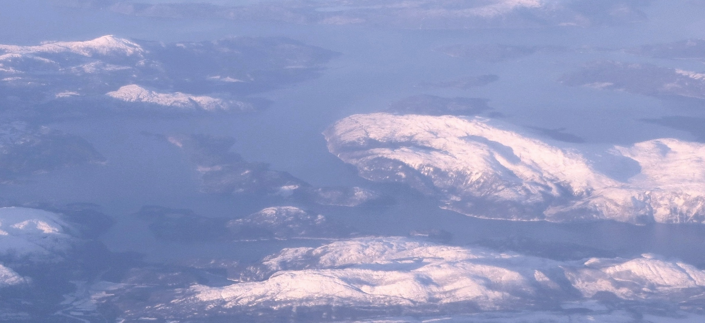 Aerial view from the east towards west, of Bindal municipality in Nordland county, Norway.The fjord in the centre of the photo is Bindalsfjorden.